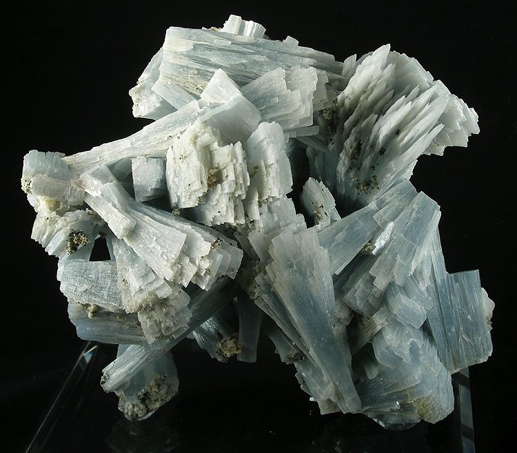 Anhydrite Locality: Naica, Municipio de Saucillo, Chihuahua, Mexico (Locality at ) Size: 16.8 x 15.4 x 10.8 cm. Naica is known to have produced some outstanding anhydrite specimens and this is certainly one. Lustrous, translucent, pastel-blue blades with white tips in fan-like, parallel-growth clusters comprise this dramatic and superb large cabinet jackstraw piece. The fans are up to 10.5 cm long. One of the very best Naica anhydrites I have ever seen.